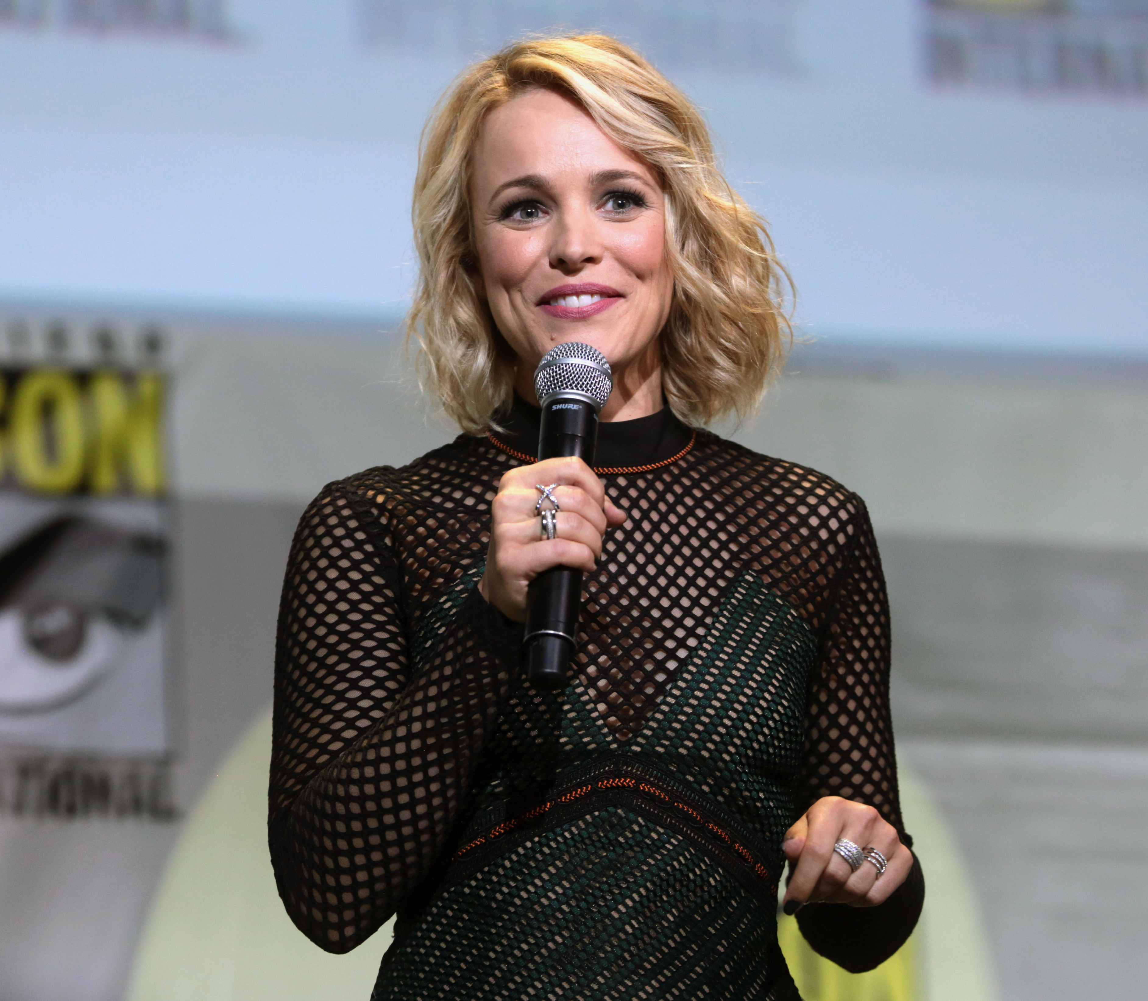 Rachel McAdams speaking at the 2016 San Diego Comic Con International, for "Doctor Strange", at the San Diego Convention Center in San Diego, California.